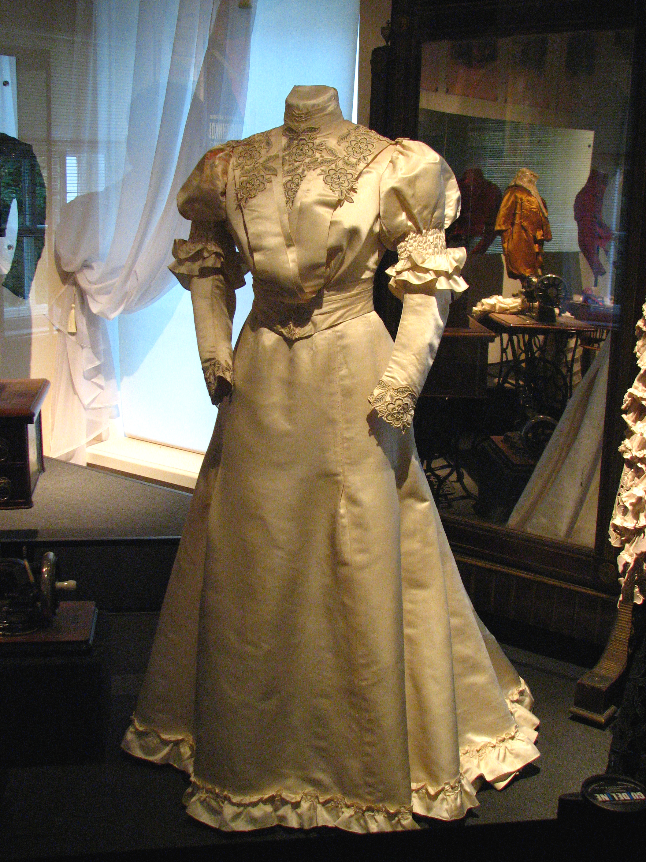 Saint Petersburg. Museum of history of St.-Petersburg (an exposition in the Commandant's house of the Peter and Paul Fortress). Show-window "Fashion atelier". Subjects of female fashionable clothes (Late XIX-th c.).